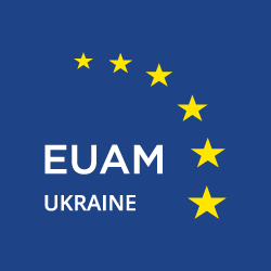 Logo of EUAM Ukraine